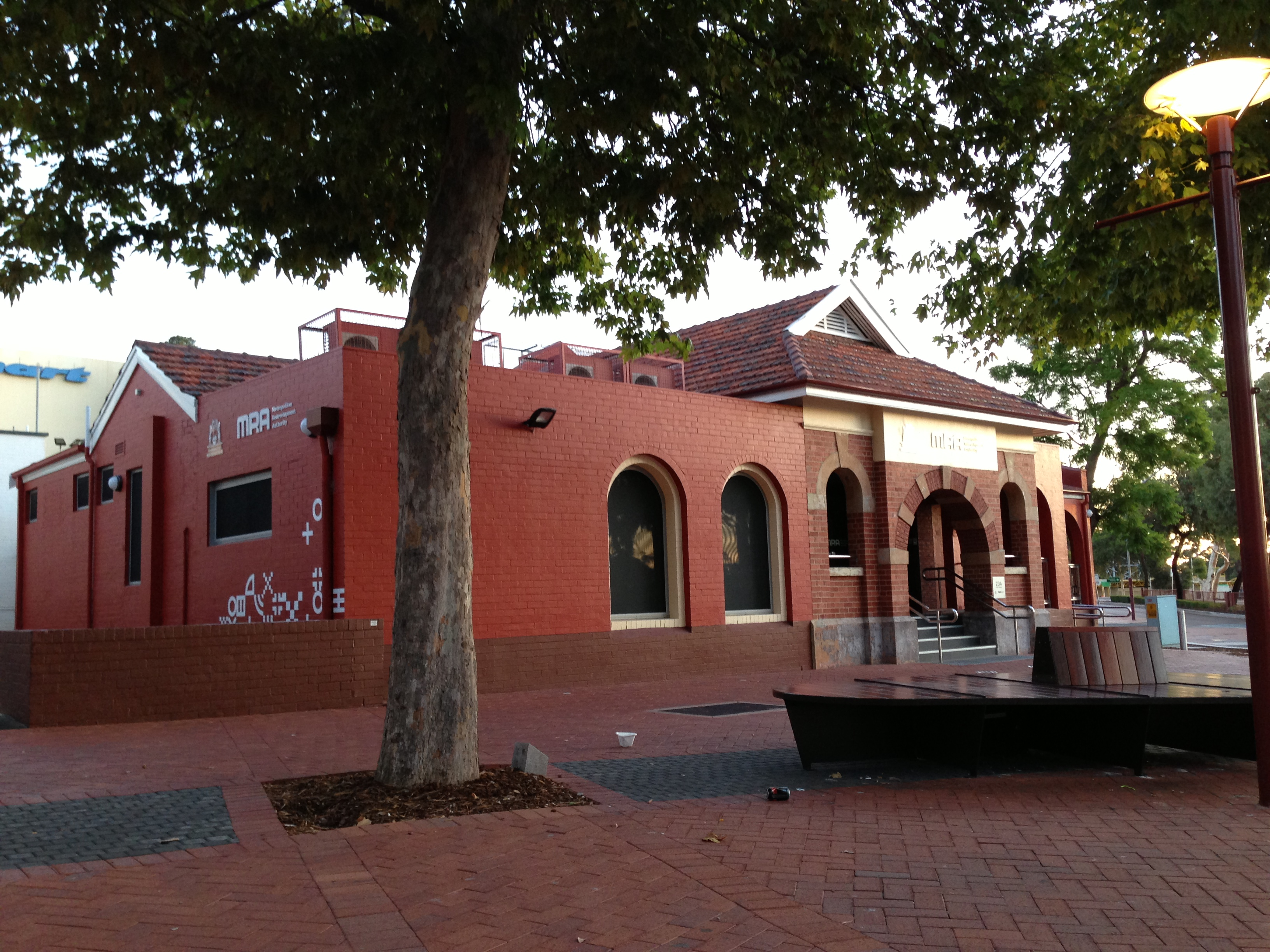 Former Telegraph and Postal offices, Jull Street, Armadale (2015).